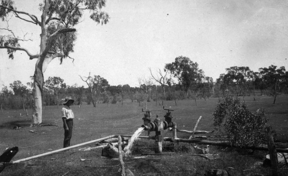 Artesian bore near Barcaldine, Queensland, 1924 Browns, Barcaldine, 23-10-24 (description supplied with photograph).